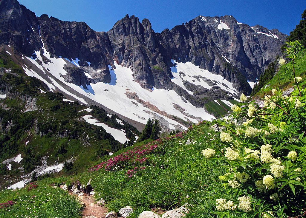 The Triplets (center skyline); Sambucus racemosa (white flowers, left); other wildflowers. Taken while hiking up the Sahale Arm in the North Cascades, Washington, US.